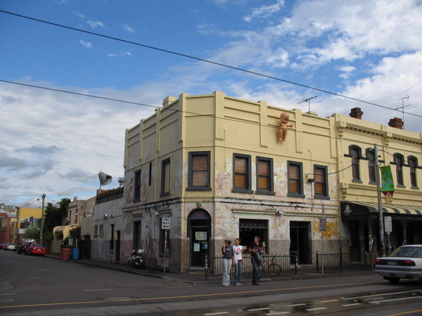 Bimbo Deluxe (formerly the Punters Club, Brunswick Street, Fitzroy, Australia